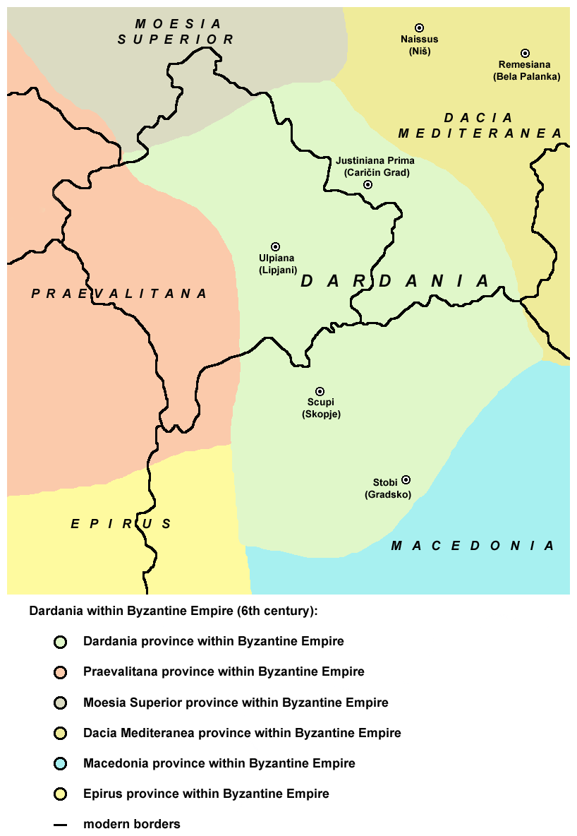 Borders of the Byzantine province of Dardania (6th century) compared to modern borders.